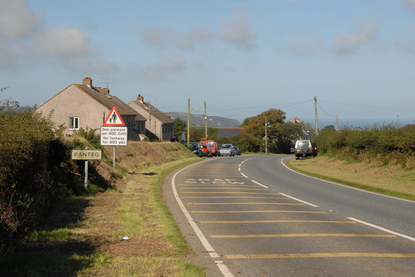 Panteg. The Village of Panteg, on the A487 St Davids to Fishguard Road